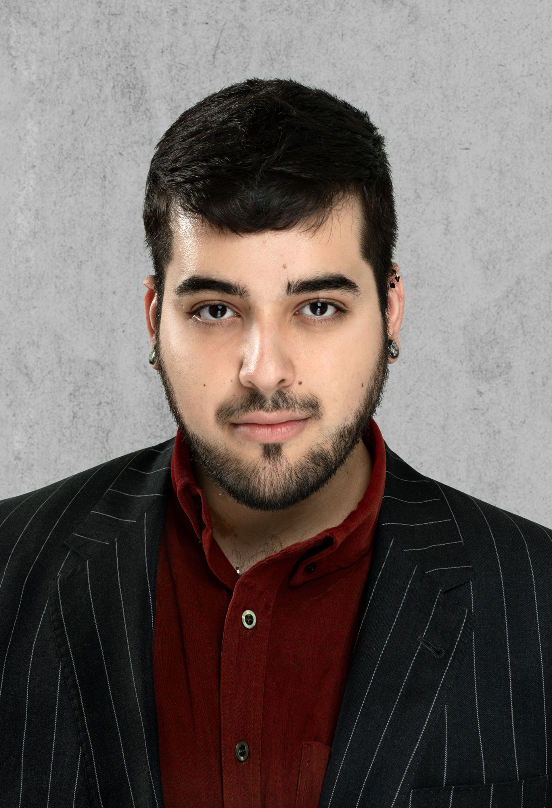 Portrait of the fashion photographer Gustavo Chams